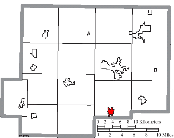 Map of the municipal and township boundaries of Putnam County, Ohio, United States, as of the 2000 census, with the location of the village of Columbus Grove highlighted. Township borders are shown only in unincorporated areas in order to differentiate incorporated and unincorporated areas more clearly.